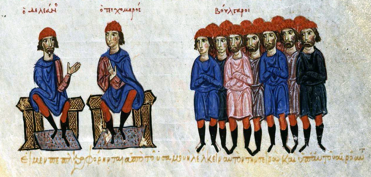 "...Then, fearing the Emperor, they rose up in revolt and proclaimed as Tsar of Bulgaria a soldier from among themselves, named Tihomir, whose bravery and common sense had already been tested. In this manner, two camps of Bulgarian rebels were formed, one of which recognized Delyan and the other - Tihomir. Delyan, however, wrote a friendly letter to Tihomir in which he invited him to join in concerted actions and per­suaded him to come. When the two Bulgarian armies united, Delyan assembled them all and called upon them to remove Tihomir if they were convinced that he himself was descended from Samuil, and wanted him to reign over them. If, however, this was undesirable to them, let them drive him away and be governed by Tihomir..." (Macedonia - Documents And Materials, I., 19. (html))